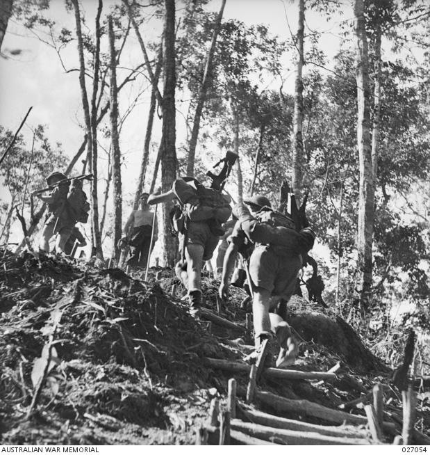 PAPUA, NEW GUINEA. 1942-10. MEMBERS OF THE 2/1ST, 2/2ND AND 2/3RD AUSTRALIAN INFANTRY BATTALIONS COMPRISING THE 16TH AUSTRALIAN INFANTRY BRIGADE MOVING UP ALONG THE TRACK ACROSS THE OWEN STANLEY RANGES, PHOTOGRAPHED IN THE VICINITY OF NAURO AND MENARI. THE MEN ARE MINGLED AND IT IS IMPOSSIBLE TO DISTINGUISH BATTALIONS.